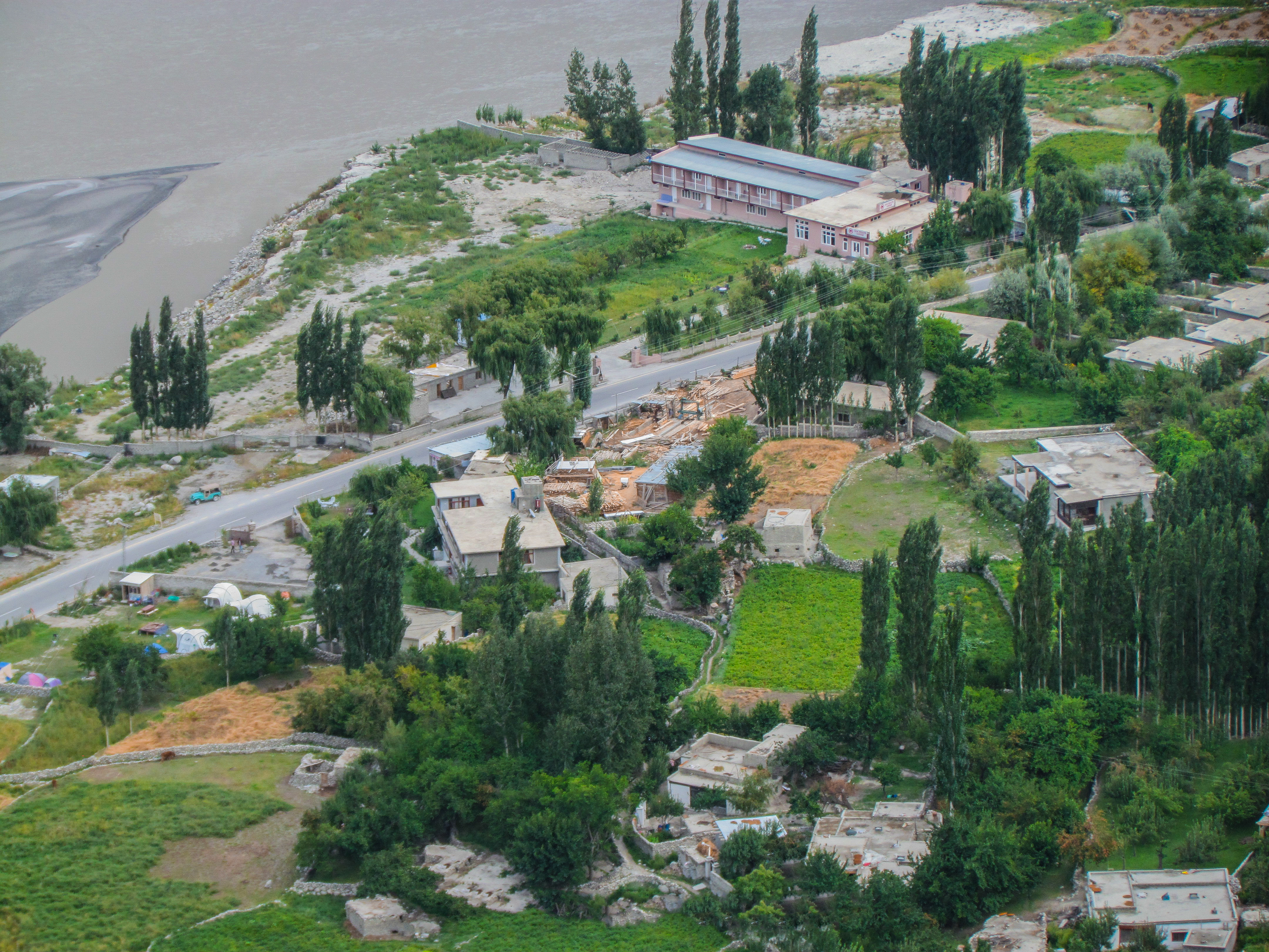 Aerial view of Gulmit Village from Ondra Fort